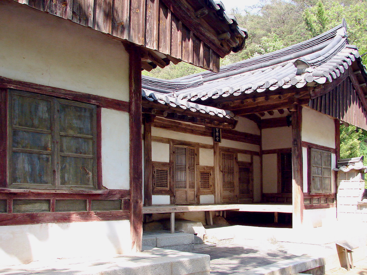 Dosan Seowon - Confucian Academy, was established in 1574 in Andong, South Korea, in memory of Confucian scholar Yi Hwang by some of his disciples and other Confucian authorities and serves two purposes: education and commemoration. Commemorative ceremonies have been and are still held twice a year and was featured on the reverse of the South Korean 1,000 won bill from 1975 until 2007.